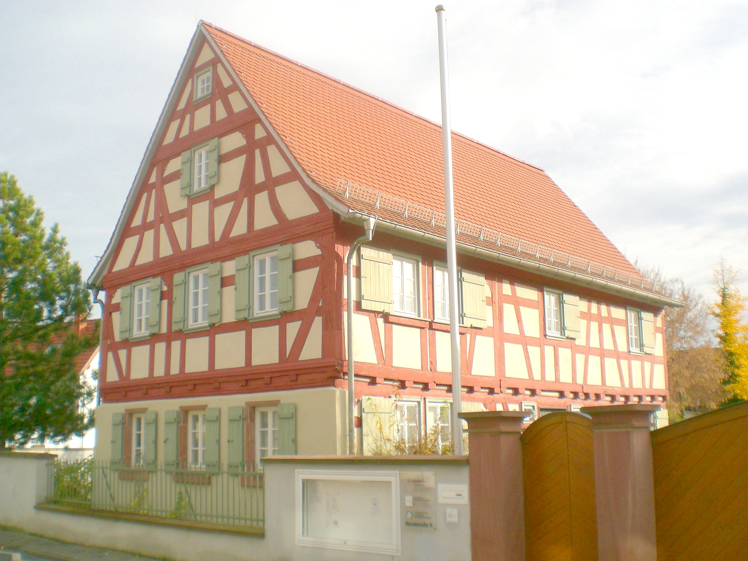 The historical timber framed birth house of Georg Büchner in Riedstadt-Goddelau, Germany